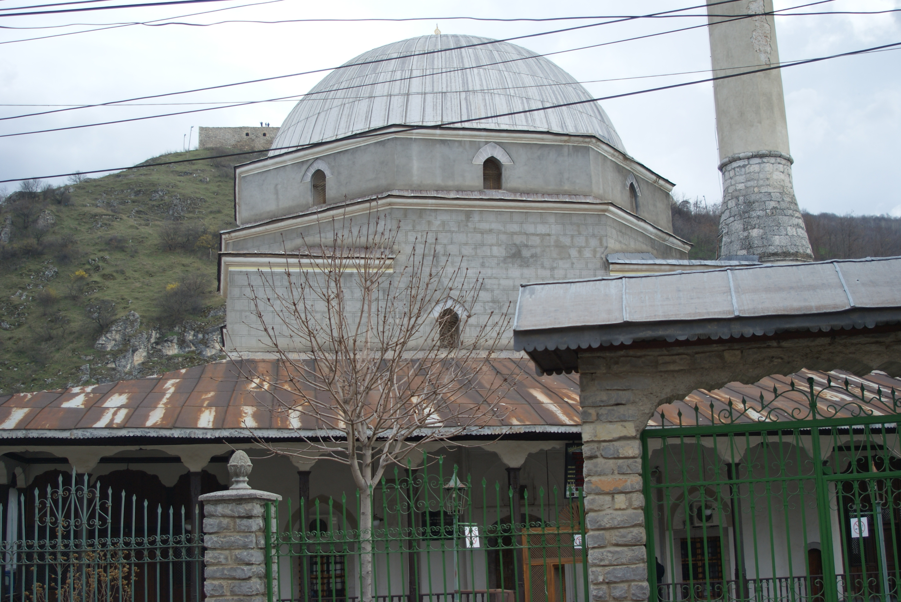 Xhamia e Bajraklise